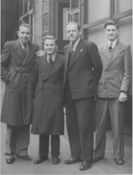 Australian historian Lionel Gilbert (far right) with Sydney Teacher's College classmates (Left to Right) Eric Smith, Ken Edden, and Doug Beard on the day they enlisted in the Royal Australian Air Force during World War II. All were assigned as radar operators.